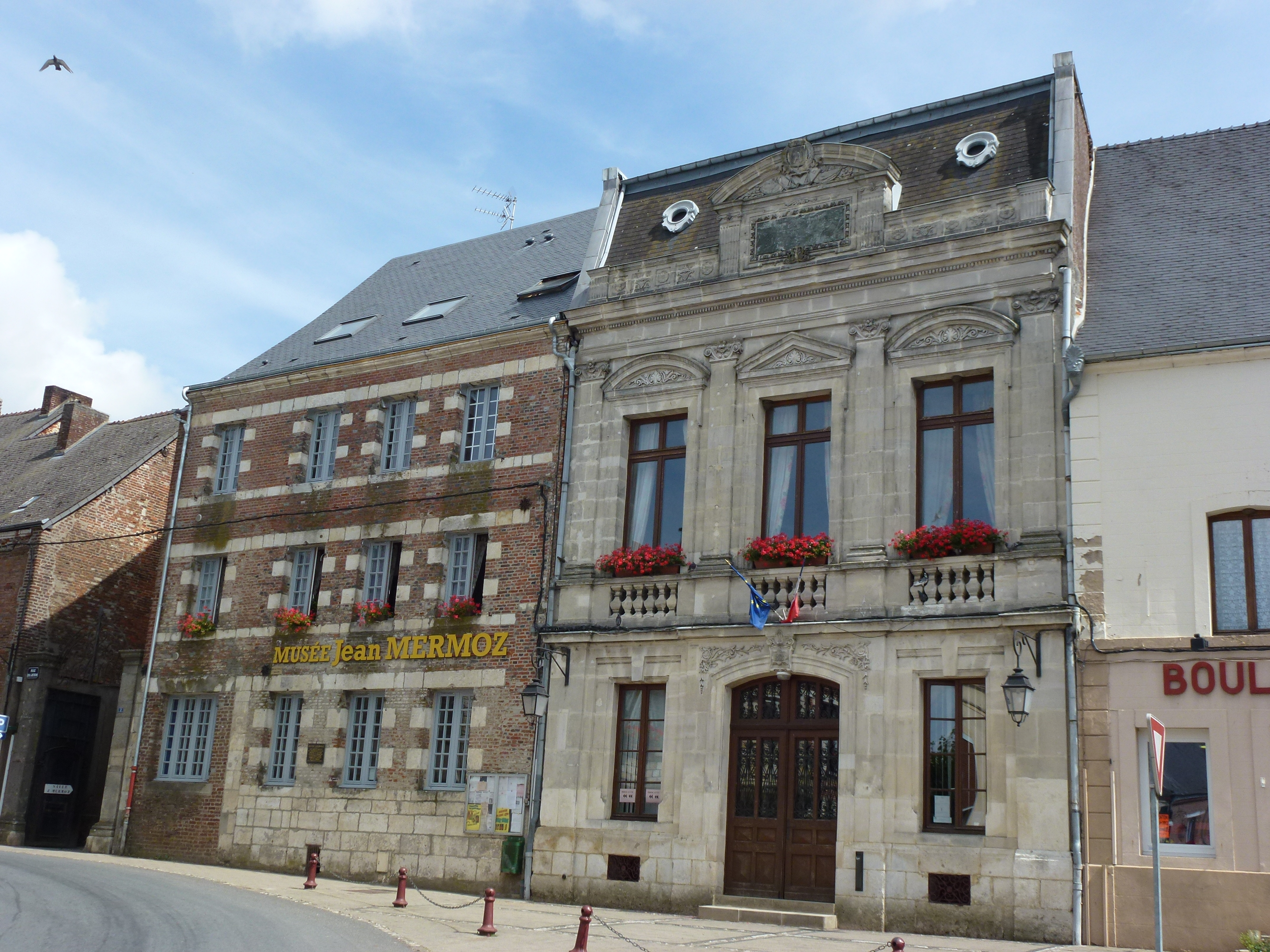 Aubenton (Aisne) mairie et musée